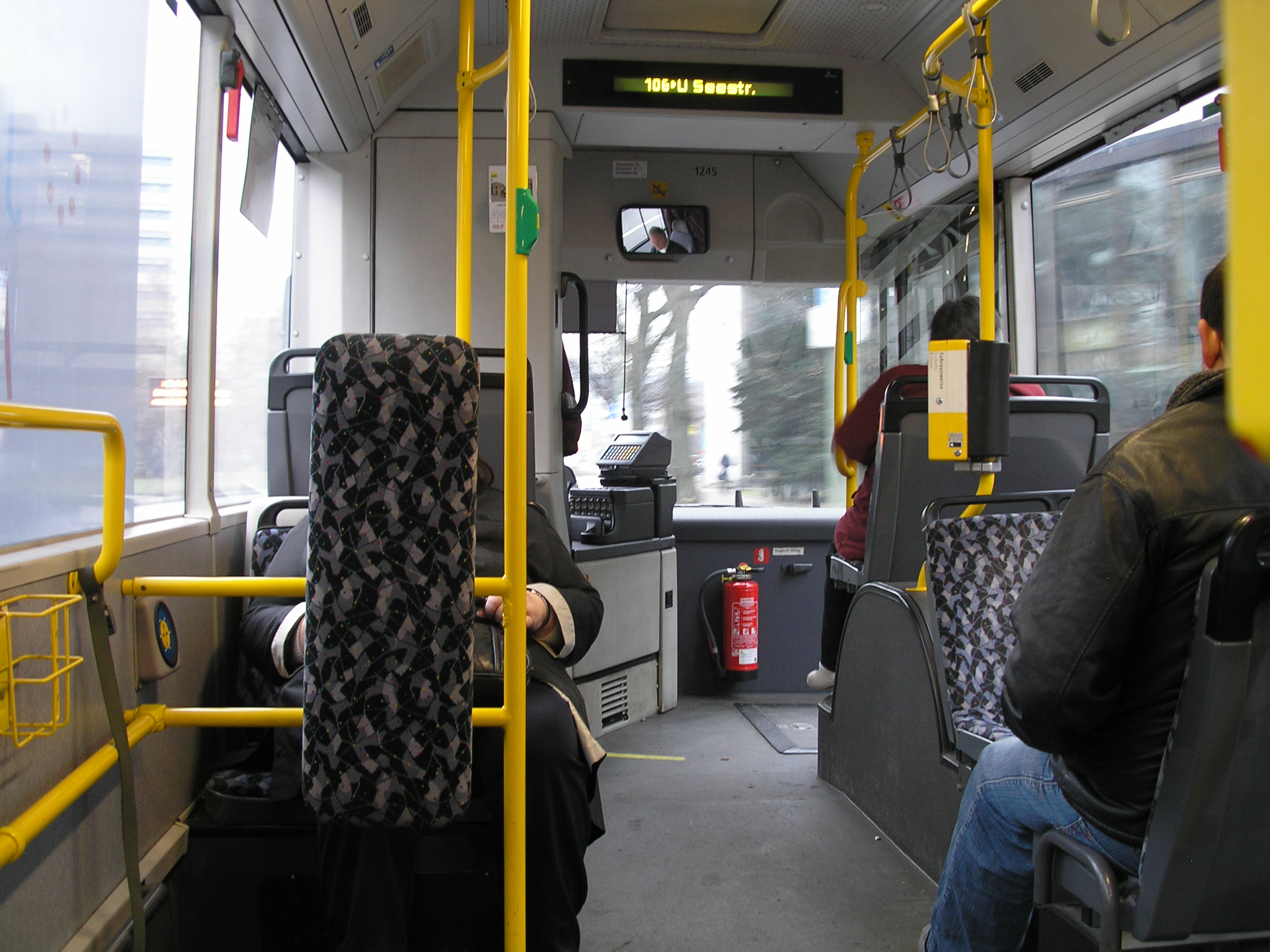 interior of a MAN NL 263 bus of BVG Berlin Transportation Agency